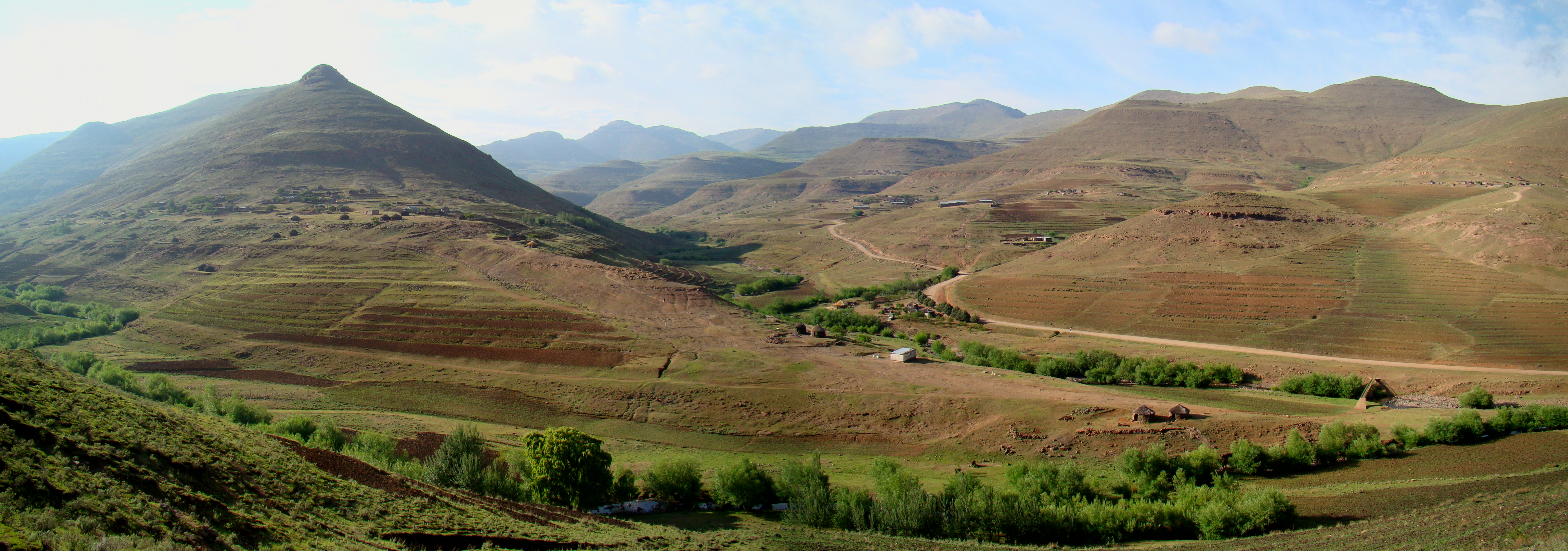 A view of Matsoaing village in eastern Lesotho. The road continues up the valley towards Sani Pass and South Africa.